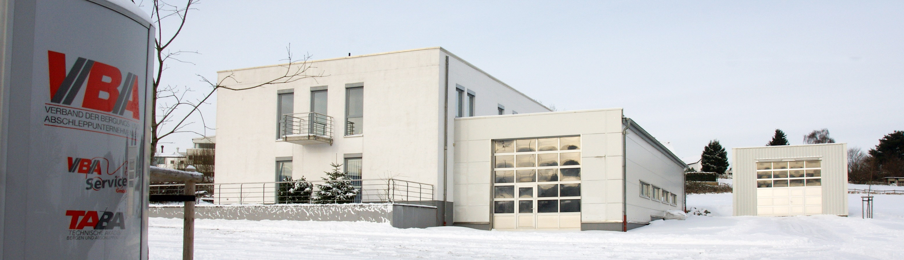 Outside View Office